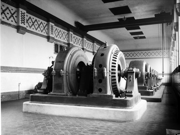 Rotary converters at Oslo Lysverker (Oslo Electric utility) in Hausmanns street 16, Oslo, ca. 1930.